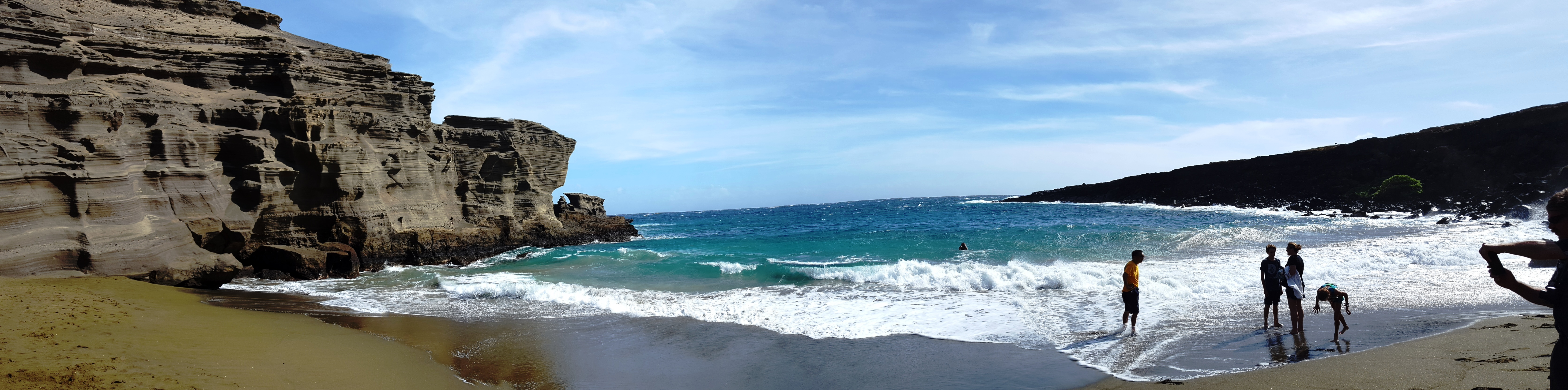 Panoramic view of the Papakōlea Beach as seen from the green sands on the beach. One of four green sand beaches in the world, the sand is acquires it's distinctive olivine green coloring due to erosion from the enclosing volcanic cone (tuff ring). The fragmental volcanic material (pyroclastics) of the tuff ring contain olivine, a silicate mineral containing iron and magnesium, also known as peridot when of gem quality.